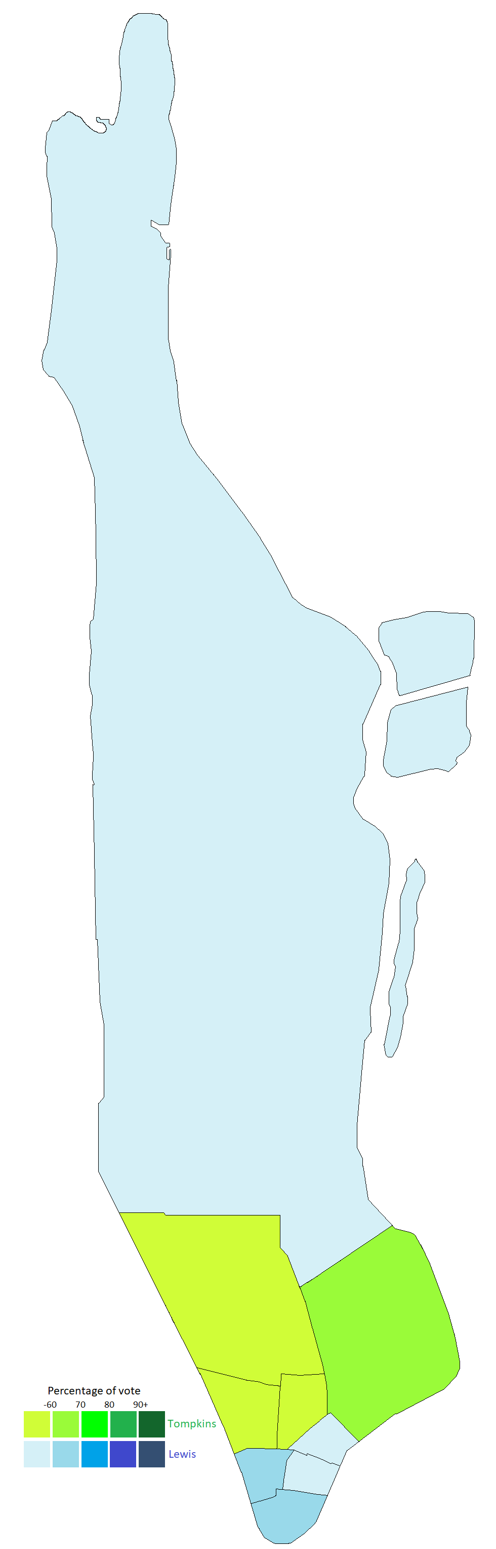 Result of the 1807 New York gubernatorial race by ward of New York City